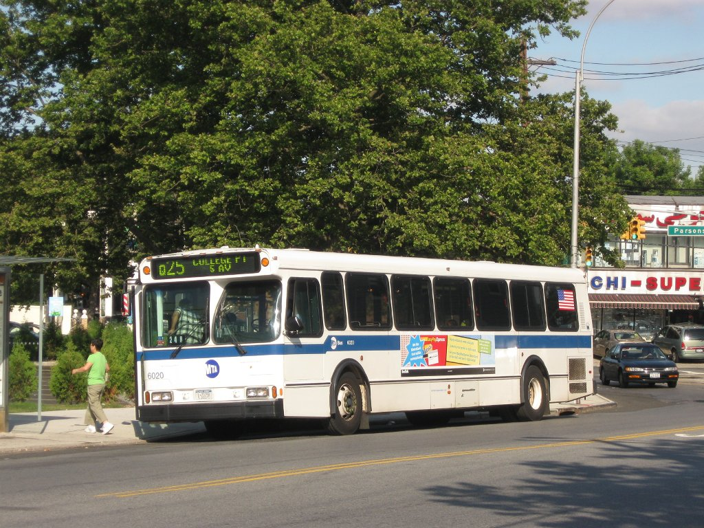 MTA bus #6020 has just entered Kissena Boulevard on the Q25 route, bound for College Point, and is dropping off some passengers.